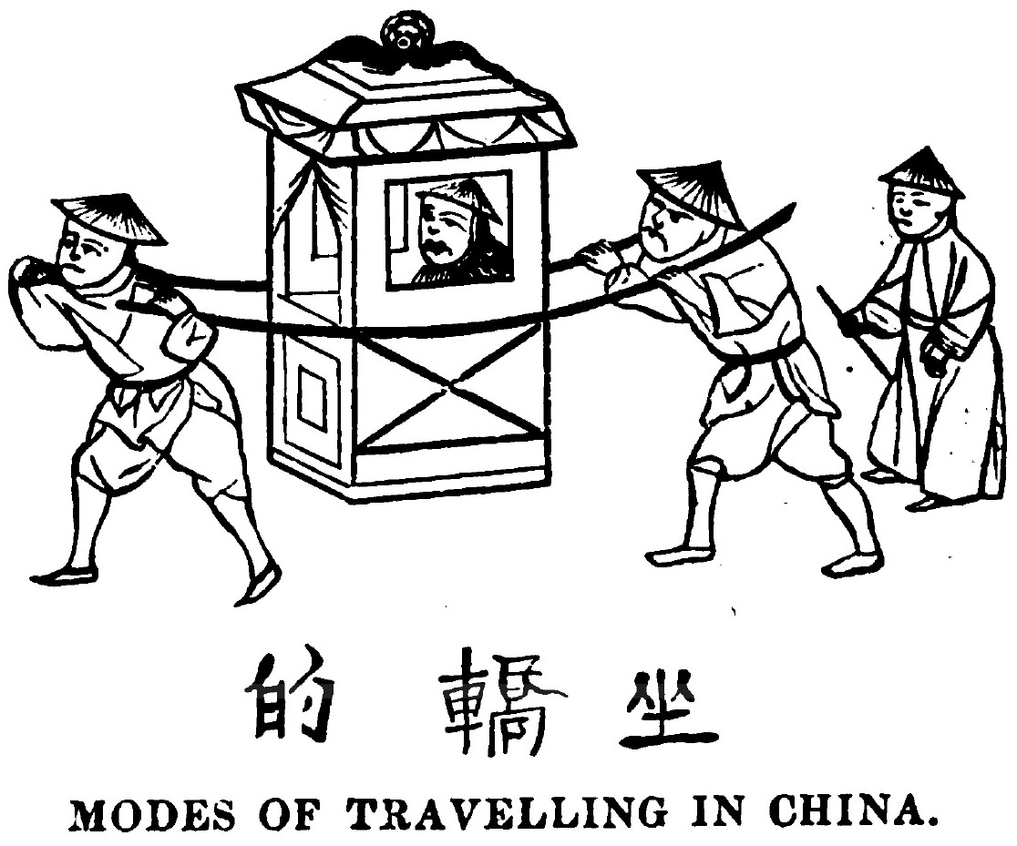 Modes of Travelling in China (September 1853, X, p.102)